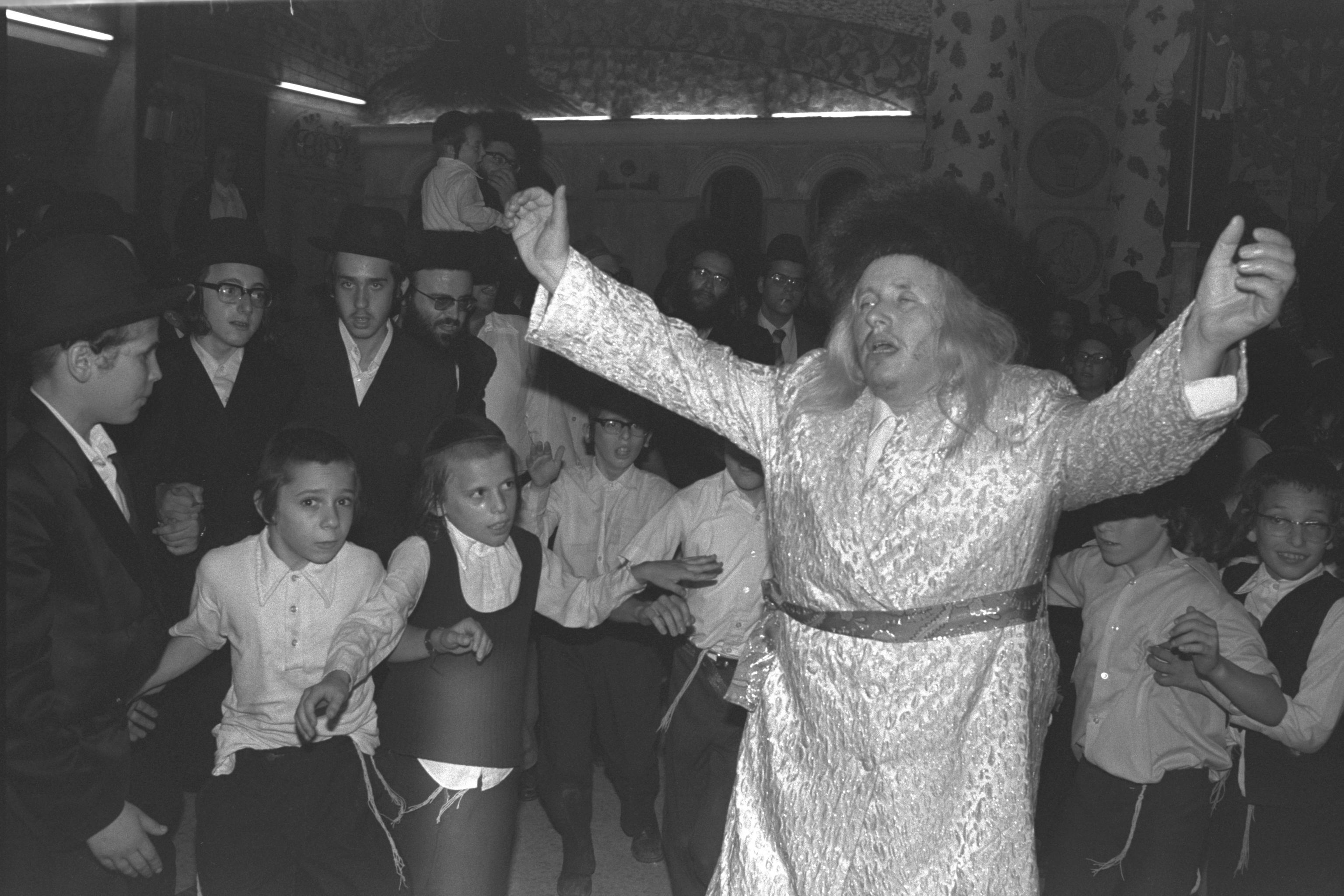 The rabbi of Kalib and his followers celebrate “Simchat Beit Hashoeva” during Sukkoth in Rishon Lezion. GPO photo by Milner Moshe.